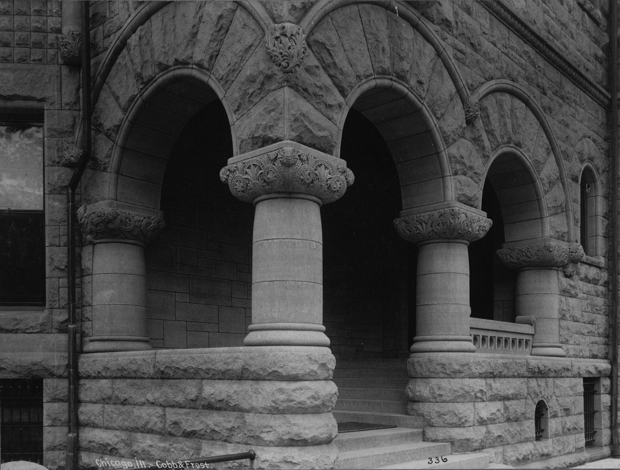 Collection: A. D. White Architectural Photographs, Cornell University Library Accession Number: 15/5/3090.00169 Title: Entrance, Ransom R. Cable House Architect: Cobb & Frost (1881-1898) Photograph date: ca. 1886-ca. 1895 Building Date: 1886 Location: North and Central America: United States; Illinois, Chicago Materials: albumen print Image: 5.9055 x 7.874 in.; 15 x 20 cm Style: Romanesque Revival Provenance: Transfer from the College of Architecture, Art and Planning Persistent URI: There are no known U.S. copyright restrictions on this image. The digital file is owned by the Cornell University Library which is making it freely available with the request that, when possible, the Library be credited as its source.